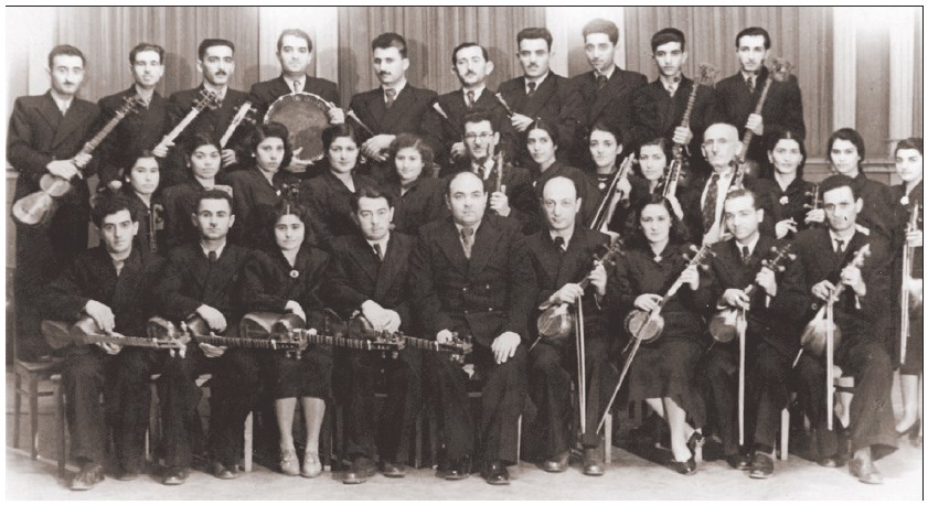 Said Rustamov with the Azerbaijan State Orchestra of Folk Instruments membersAzərbaycanca: Səid Rüstəmov Azərbaycan Dövlət Xalq çalğı alətləri orkestrinin üzvləri ilə